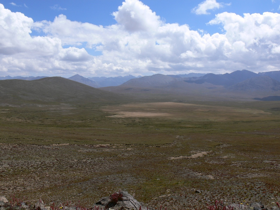 Endless Plains truly roof of the world. Deosai National Park, Pakistan. Karakoram-West Tibetan Plateau alpine steppe. (Author: Ch. Muhammad Umer)